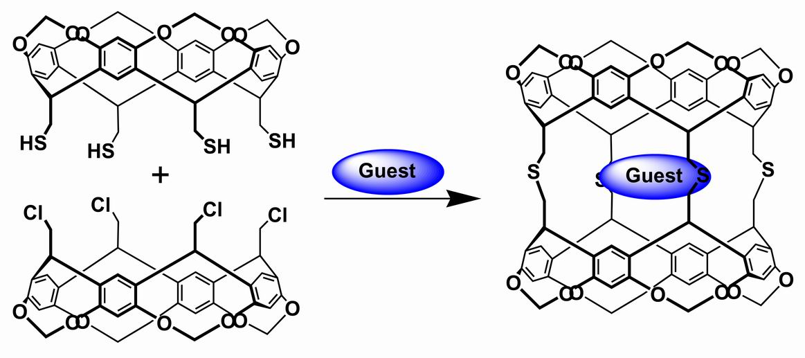 This is an image of the synthesis of a carcerand. It was made by me and free for all to use.